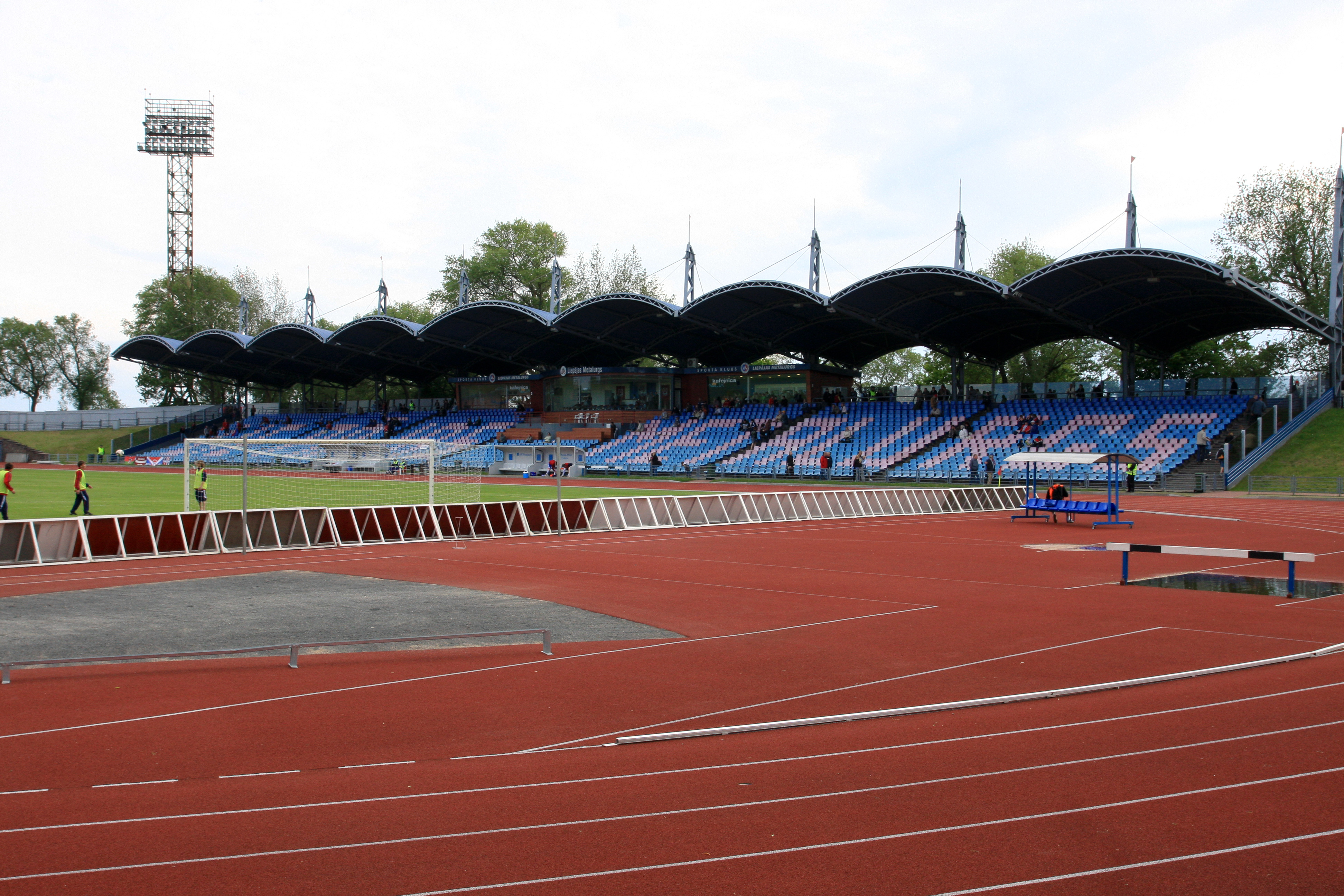 Daugava Stadium in Liepaja